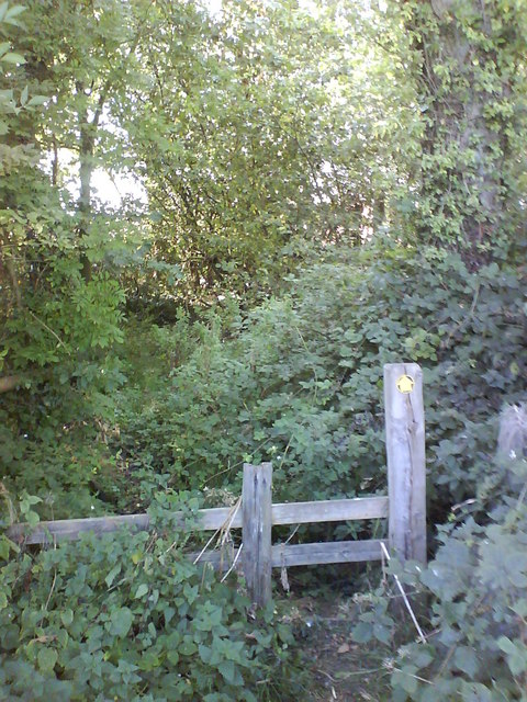 Into the Undergrowth Certainly not the best stile in Yorkshire!